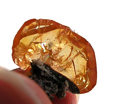 Wulfenite Locality: Tsumeb, Otjikoto (Oshikoto) Region, Namibia (Locality at ) Size: thumbnail, 1.6 x 1.6 x 0.9 cm Wulfenite A large, 1.6 cm, gemmy, lustrous, golden-orange, doubly terminated, wulfenite crystal is perched on a bit of matrix along with a smaller wulfenite crystal. This is as good as they come from Tsumeb for a wulfenite in quality, thumbnail or not! And, as a thumbnail, its supremely good and balanced.